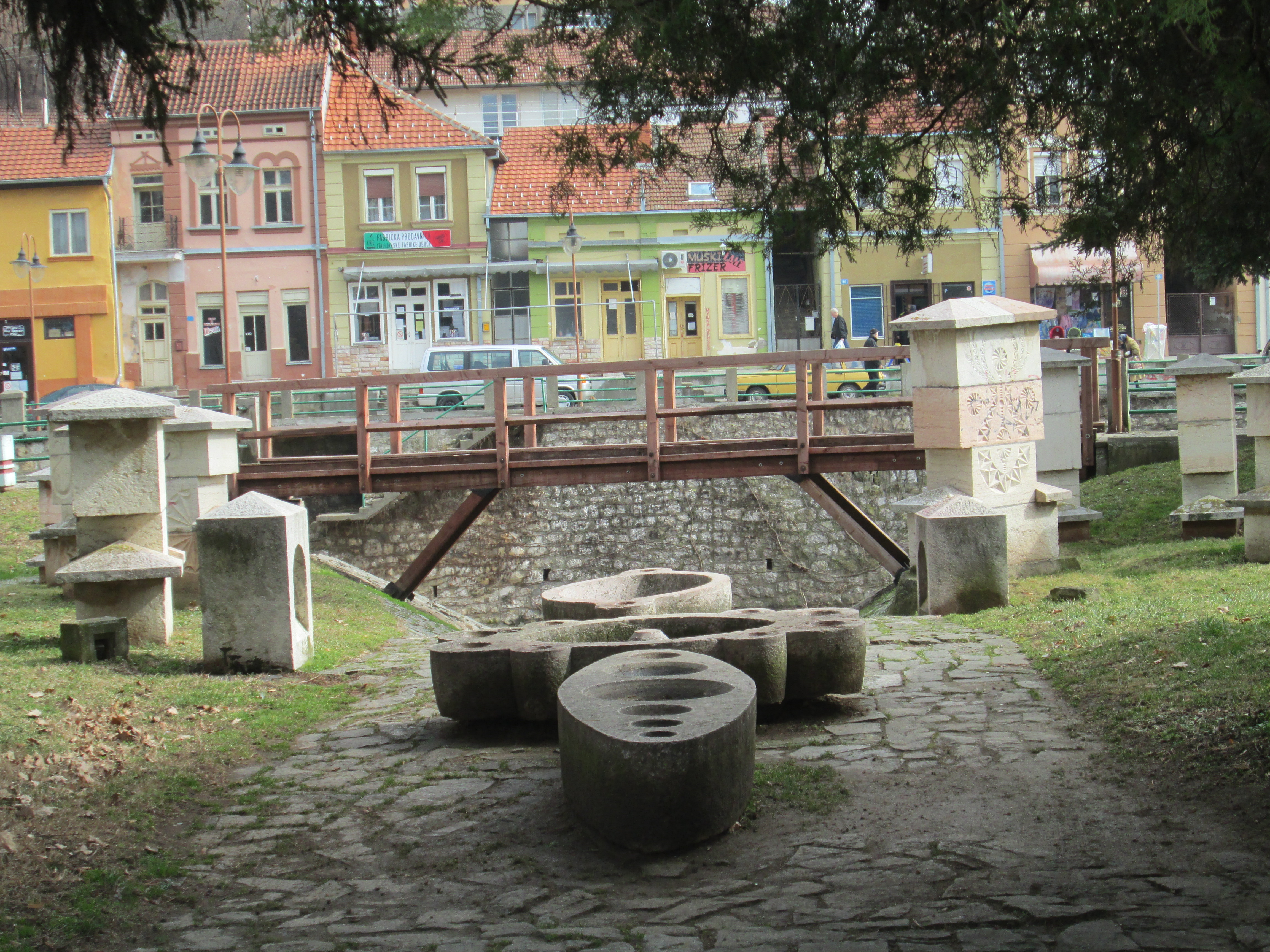 Memorial park in Knjaževac Српски (ћирилица): Спомен парк Тимочанима палим у ратовима и револуцији, Књажевац